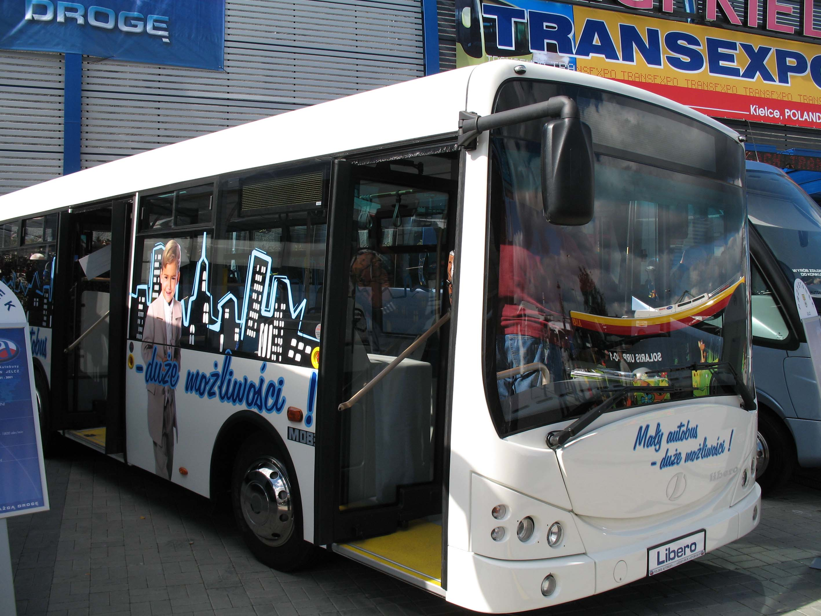 Jelcz M083C Libero bus on Autosan chassis in Kielce, Poland. Built 2007, Transexpo 2007.